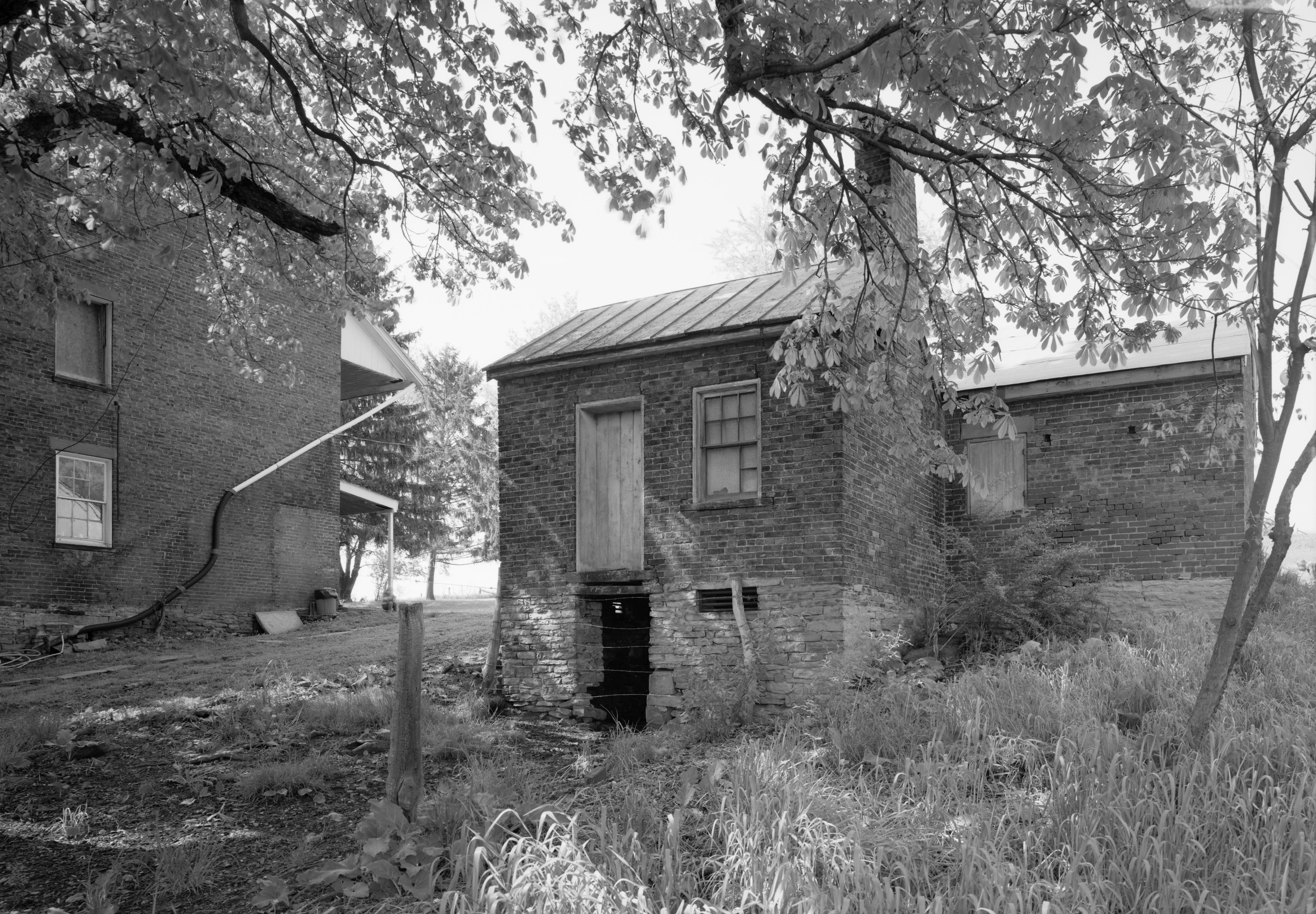 Buildings at the Springer Farm, located off Fan Hollow Road northeast of Uniontown in North Union Township, Fayette County, Pennsylvania, United States. From left to right, the buildings are the house, a summer kitchen, and a smokehouse. Established in 1817, the farm is listed on the National Register of Historic Places.